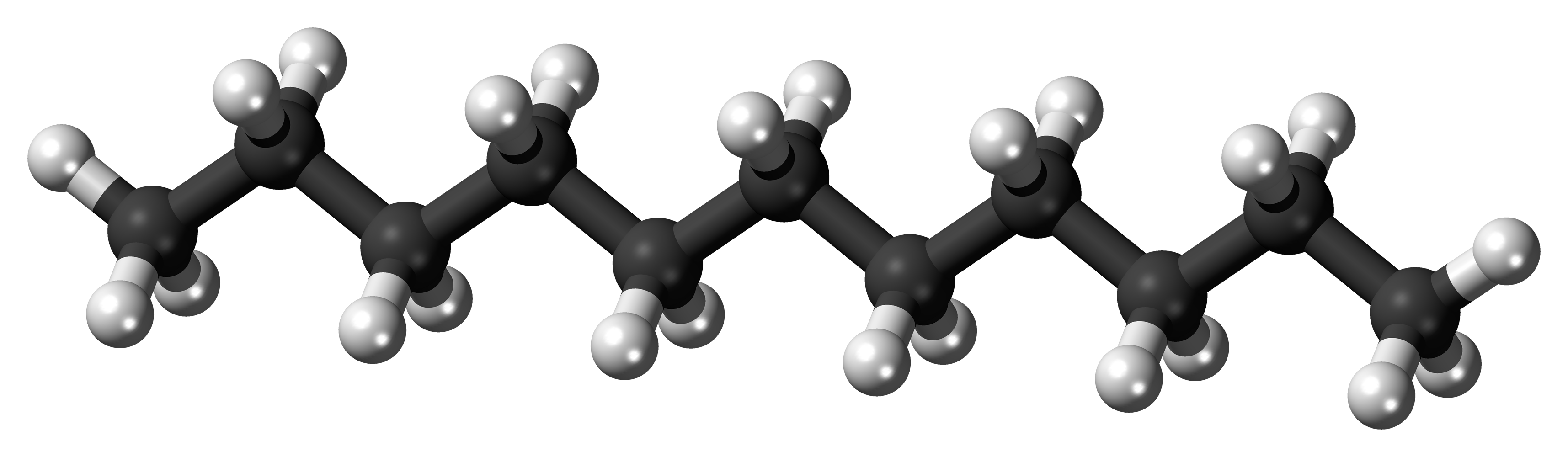 Ball-and-stick model of the undecane molecule, an alkane with eleven carbon atoms. Color code: Carbon, C: black Hydrogen, H: white